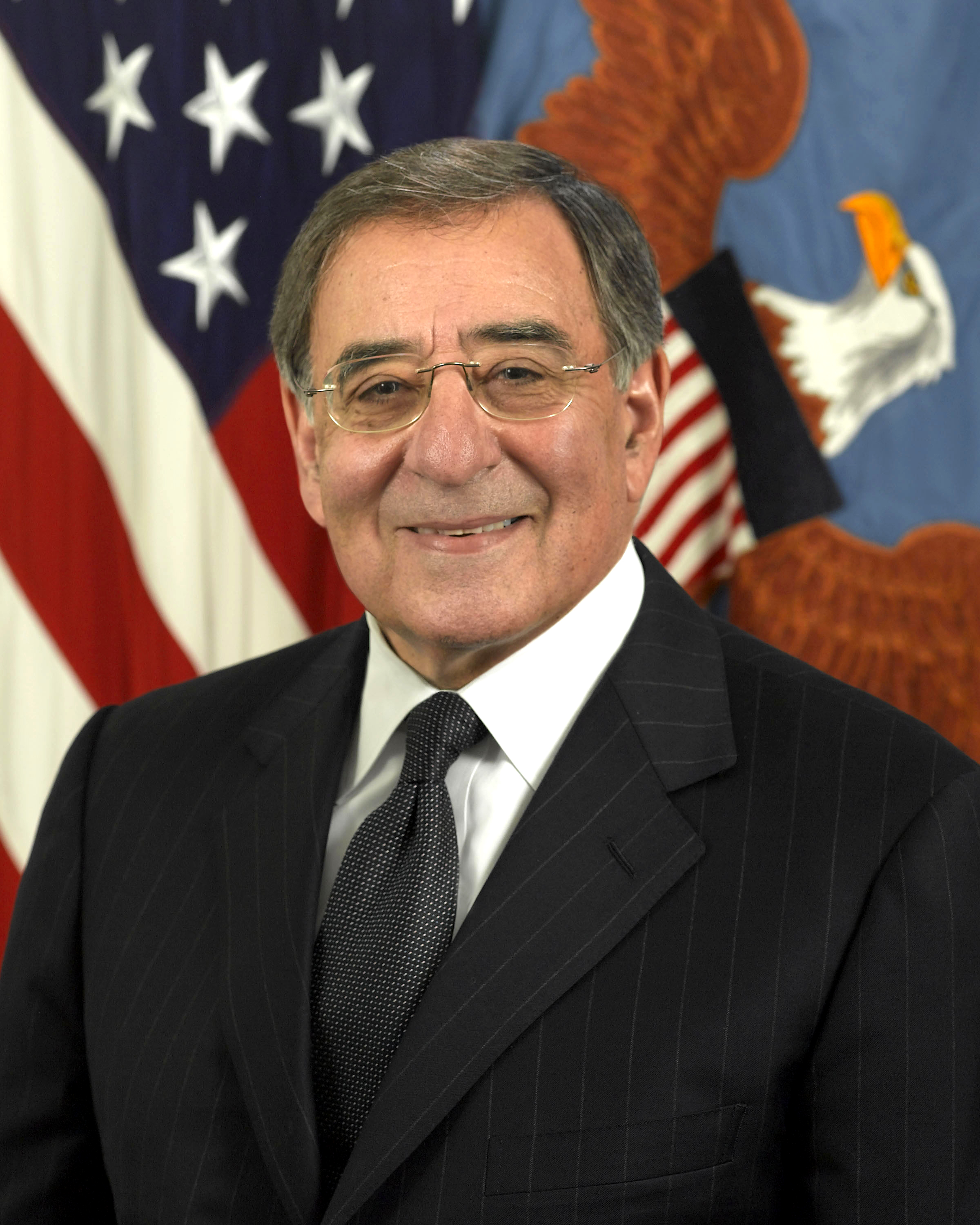 Official portrait of Leon Panetta as United States Secretary of Defense